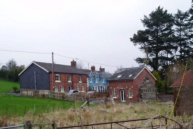 Old railway station at Pant y Dwr The old station has now been converted to houses.